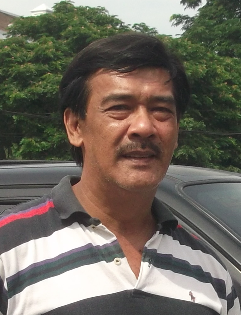 Sonny Parsons after lunch meeting with friend near Marikina Sports Center (July 16, 2013)